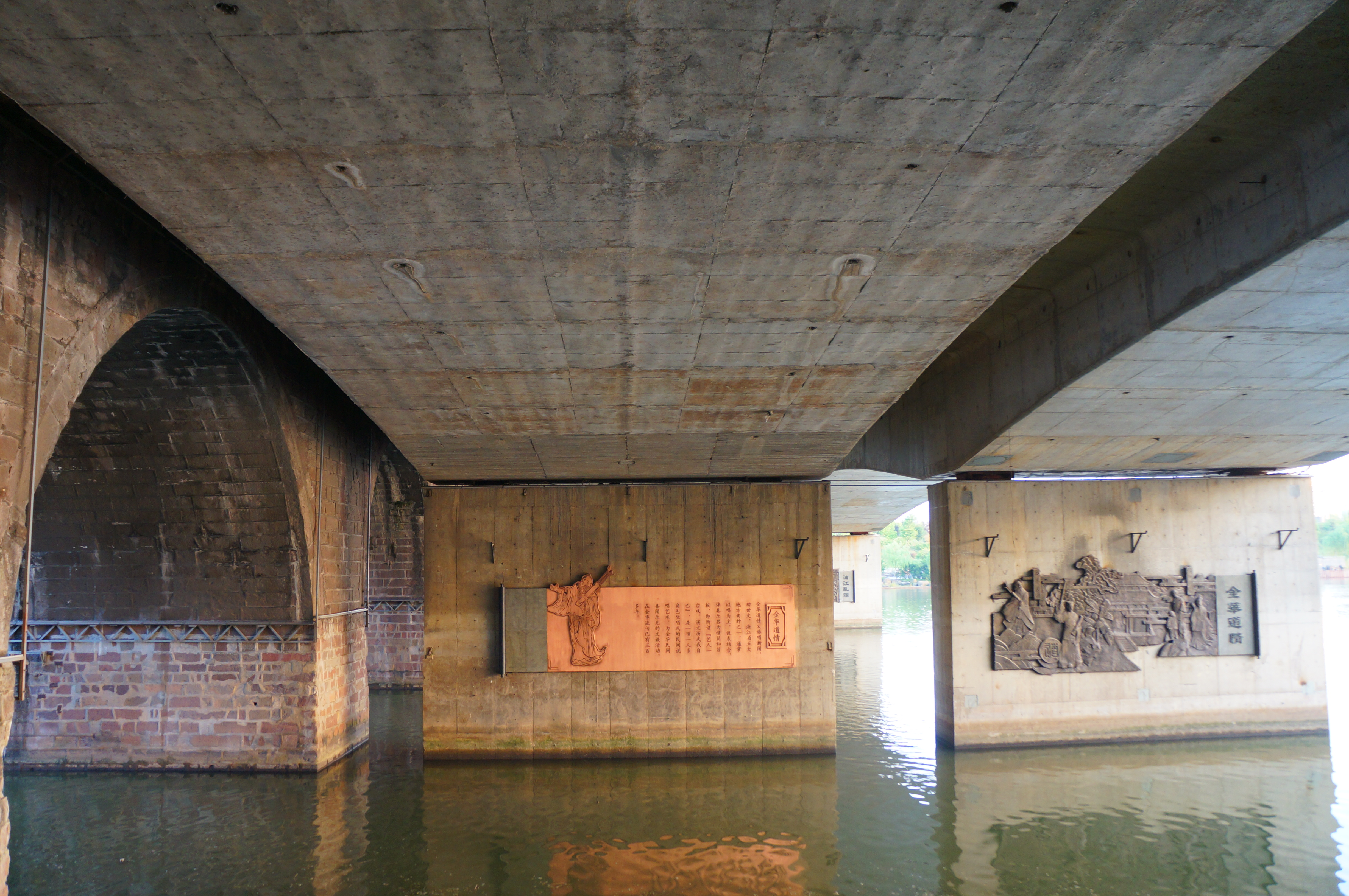 201704 Three generations of Tongji Bridge, completed in 1809, 1995 and 2011.